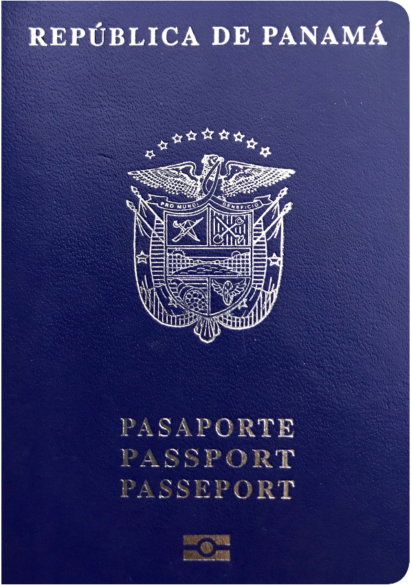 Front cover of the new Panamanian Passport